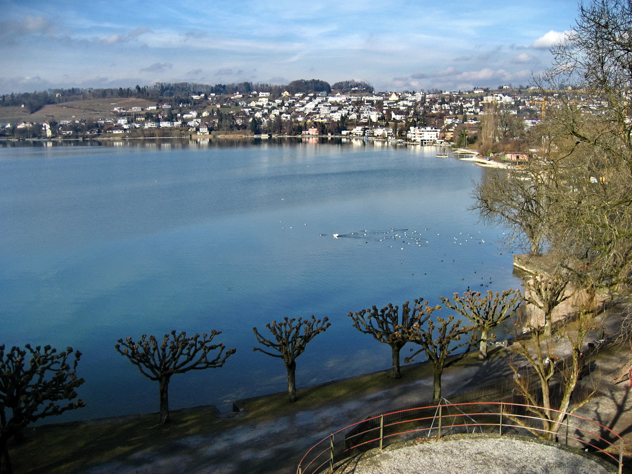 Rapperswil (SG) : Kempraten as seen from Herrenberg overlooking Zürichsee' (Lake Zürich).